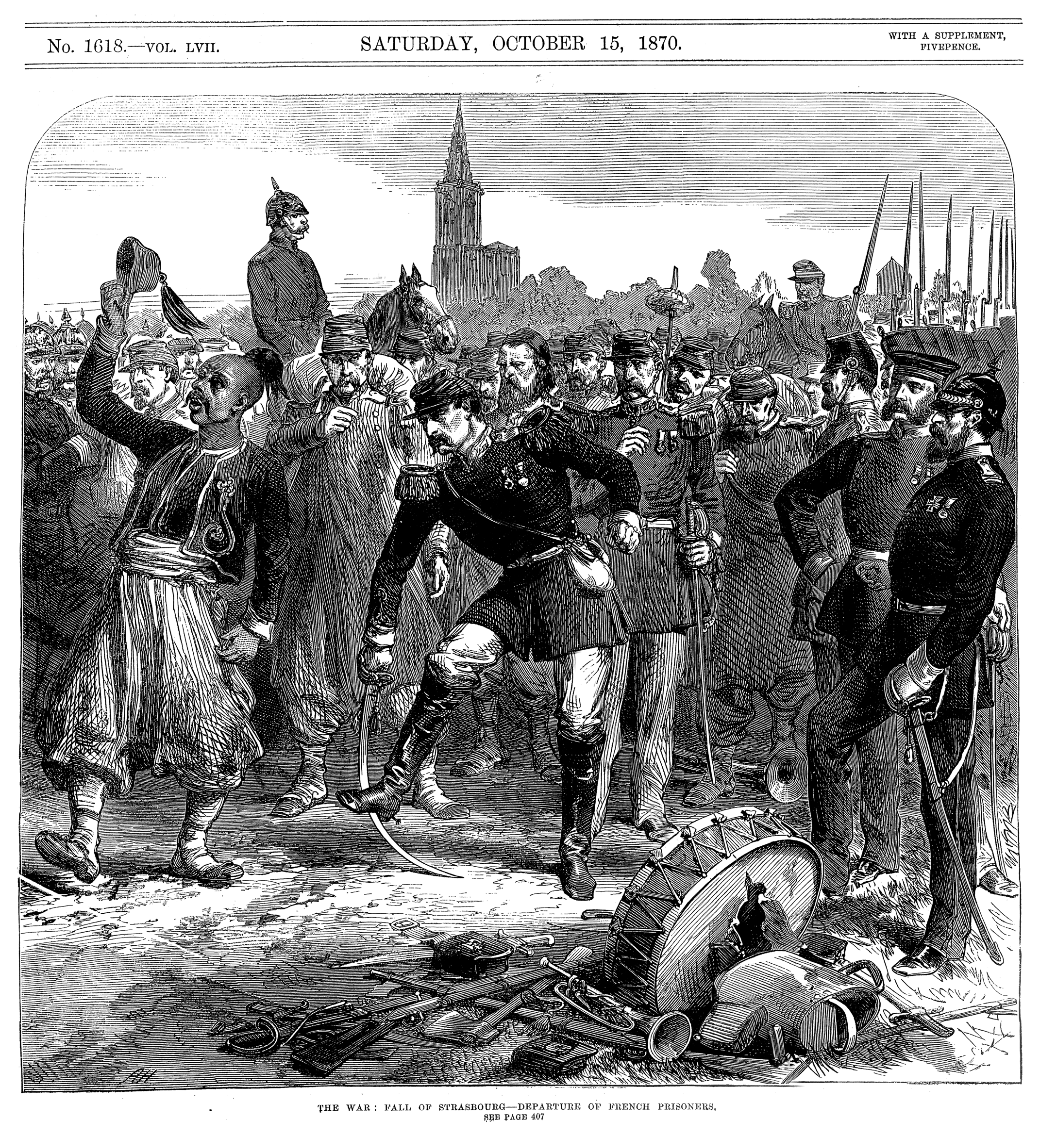 "The [Franco-Prussian] War: Fall of Strasbourg - Departure of French Prisoners"